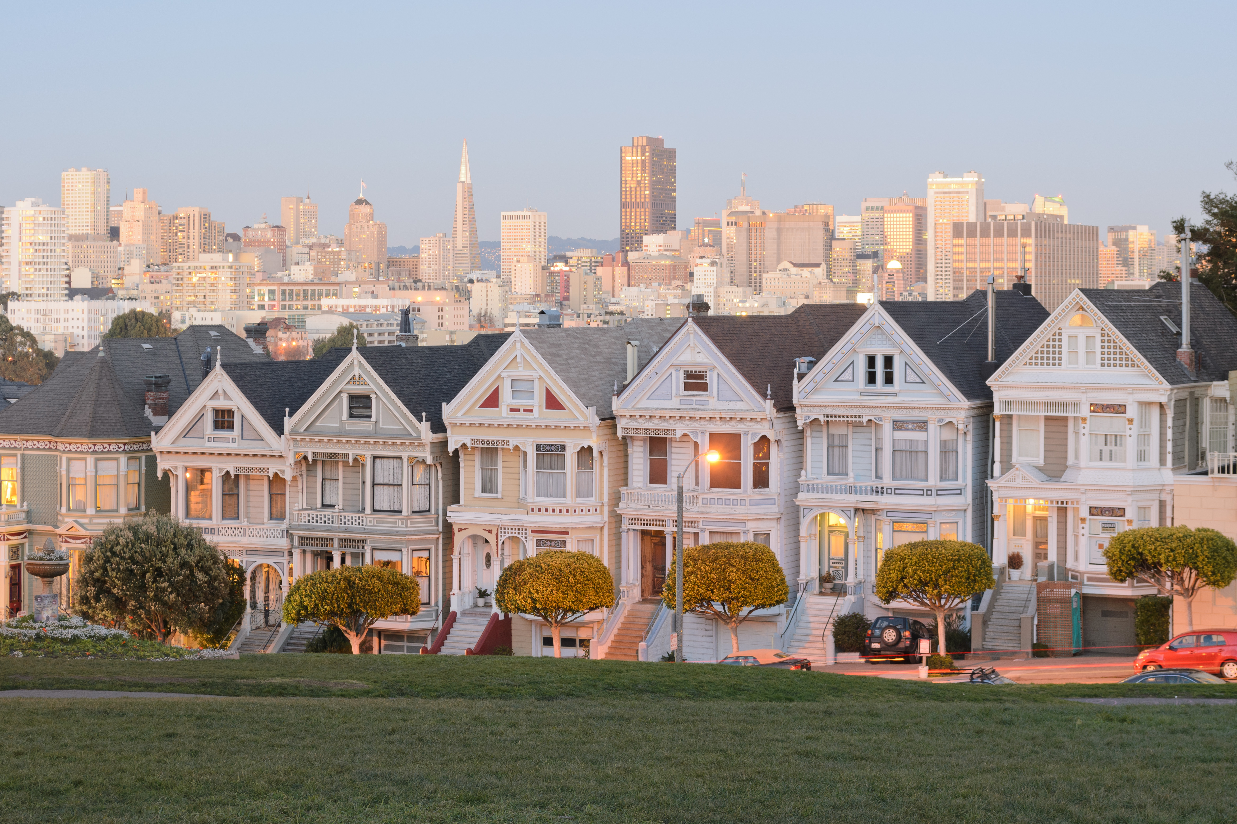 The Painted Ladies in San Francisco, California.